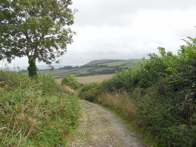 Barnes's Lane, near Narn Farm, Alton Pancras